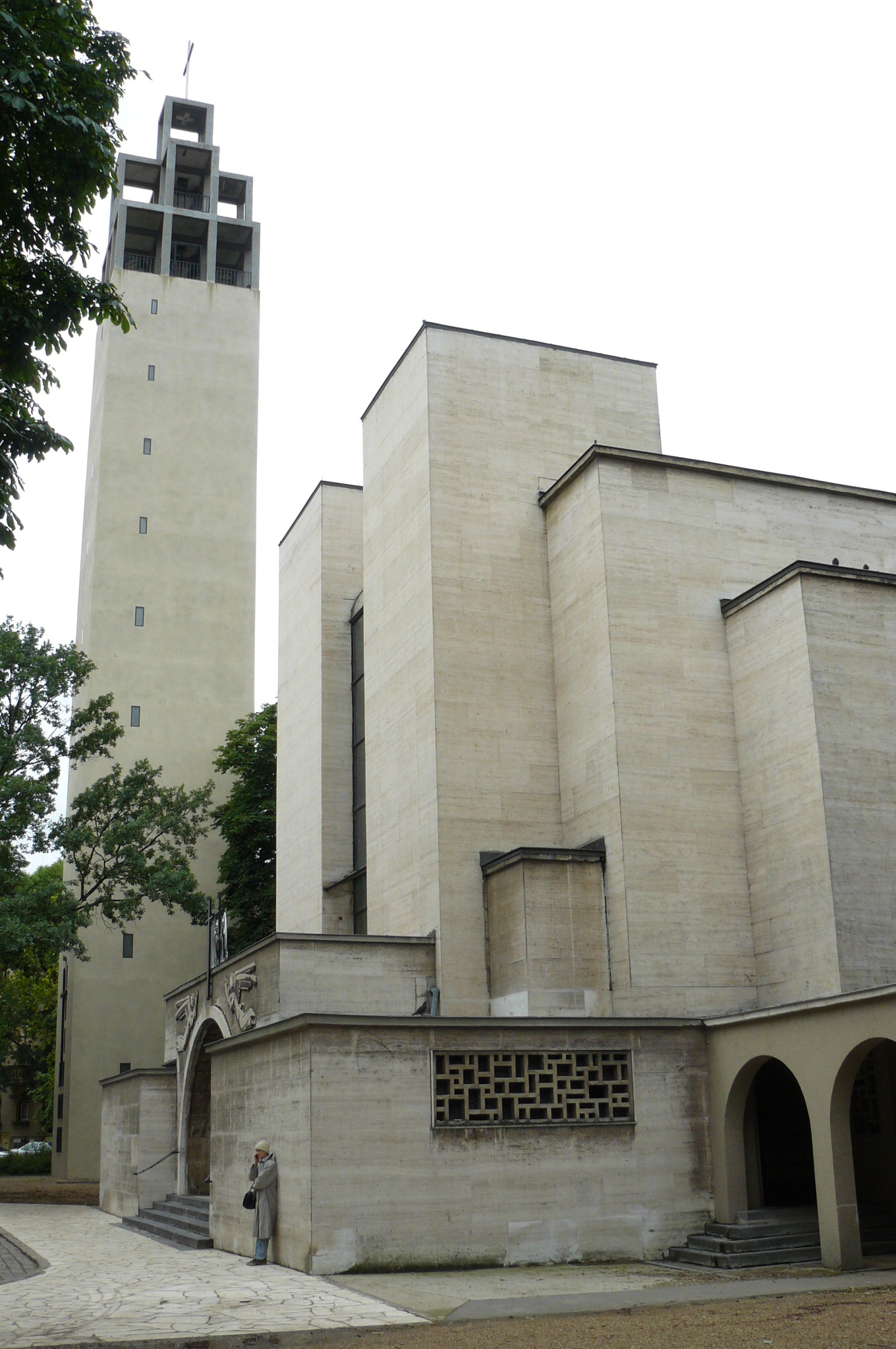 Church in Varosmajor - Budapest.